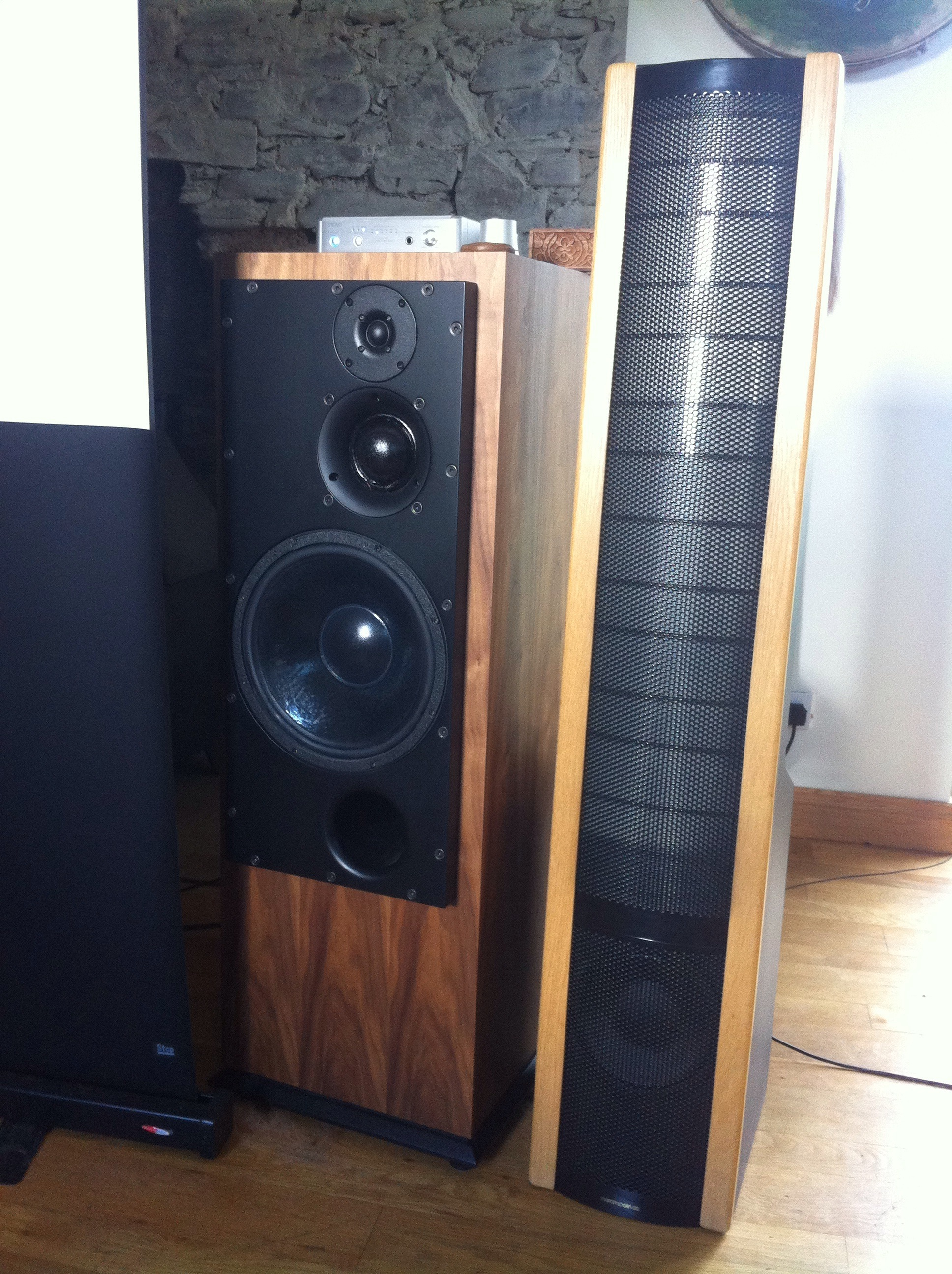 An ATC (left) and MartinLogan speaker, the latter with MartinLogan's signature large Electrostatic tweeter, or Electrostatic speaker.